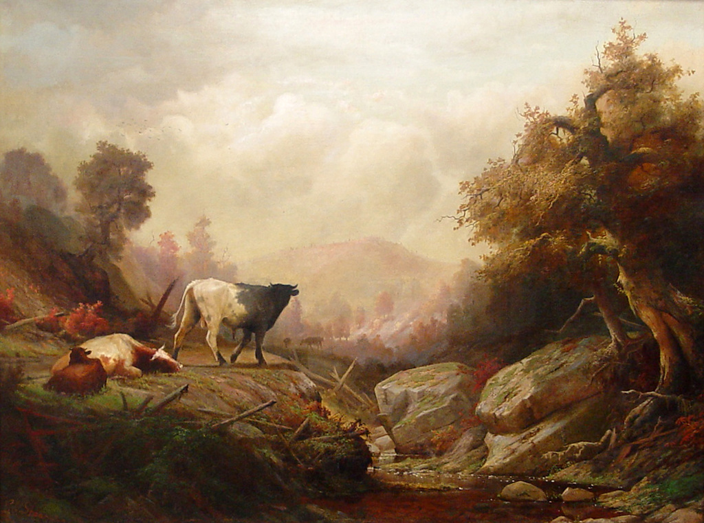 Landscape with Cattle by Christopher High Shearer, (American, 1846-1926), 1890-1899, oil on canvas, Reading Public Museum